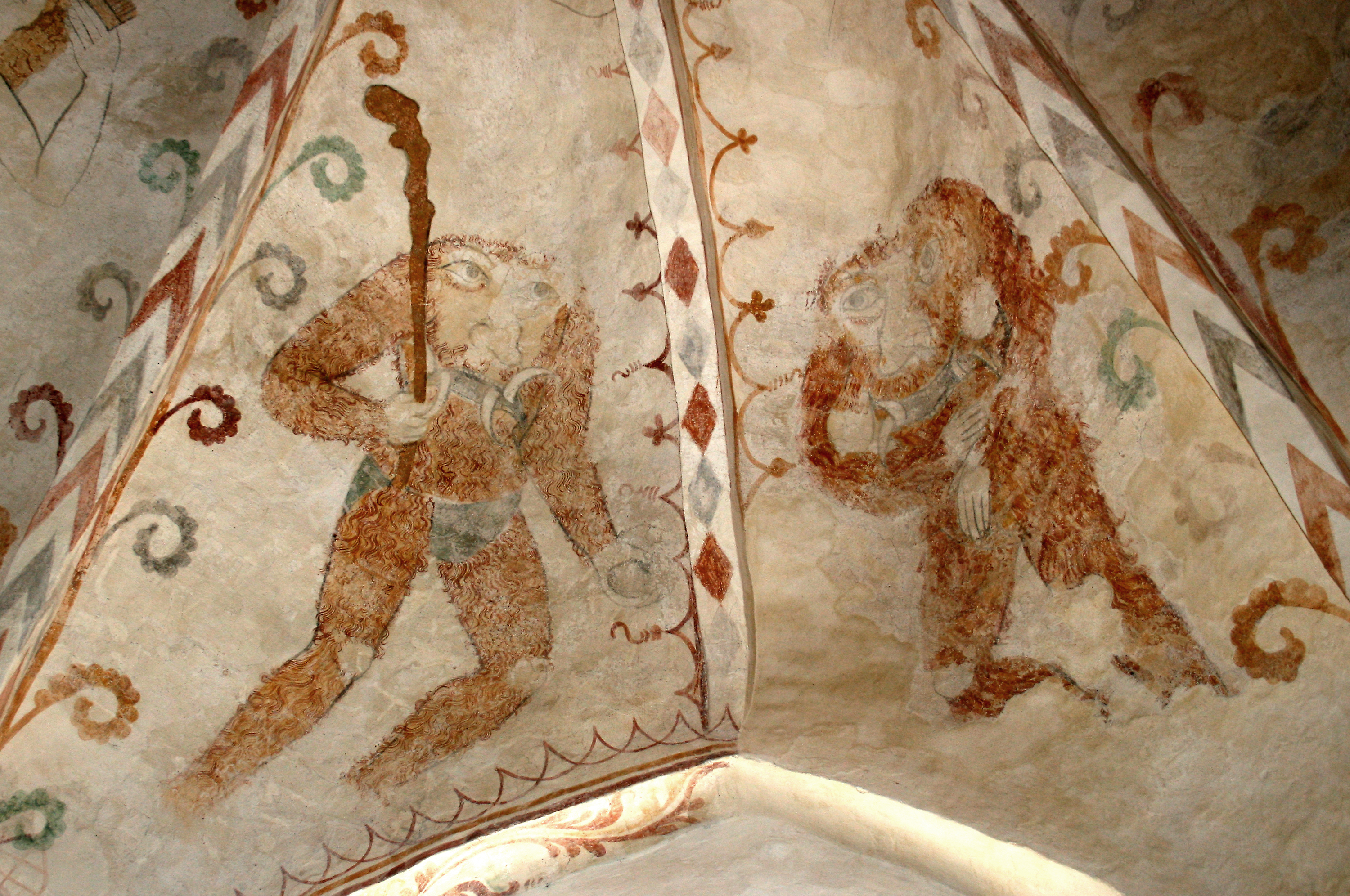 Dalbyneder Church, the western arch in the naive with a gothic fresco from 1511 of two blemmyes, which symbolizes avarice and gluttony, two of the seven katholic mortal sins. Dalbyneder Sogn, Gjerlev Herred, Randers Amt, Denmark.